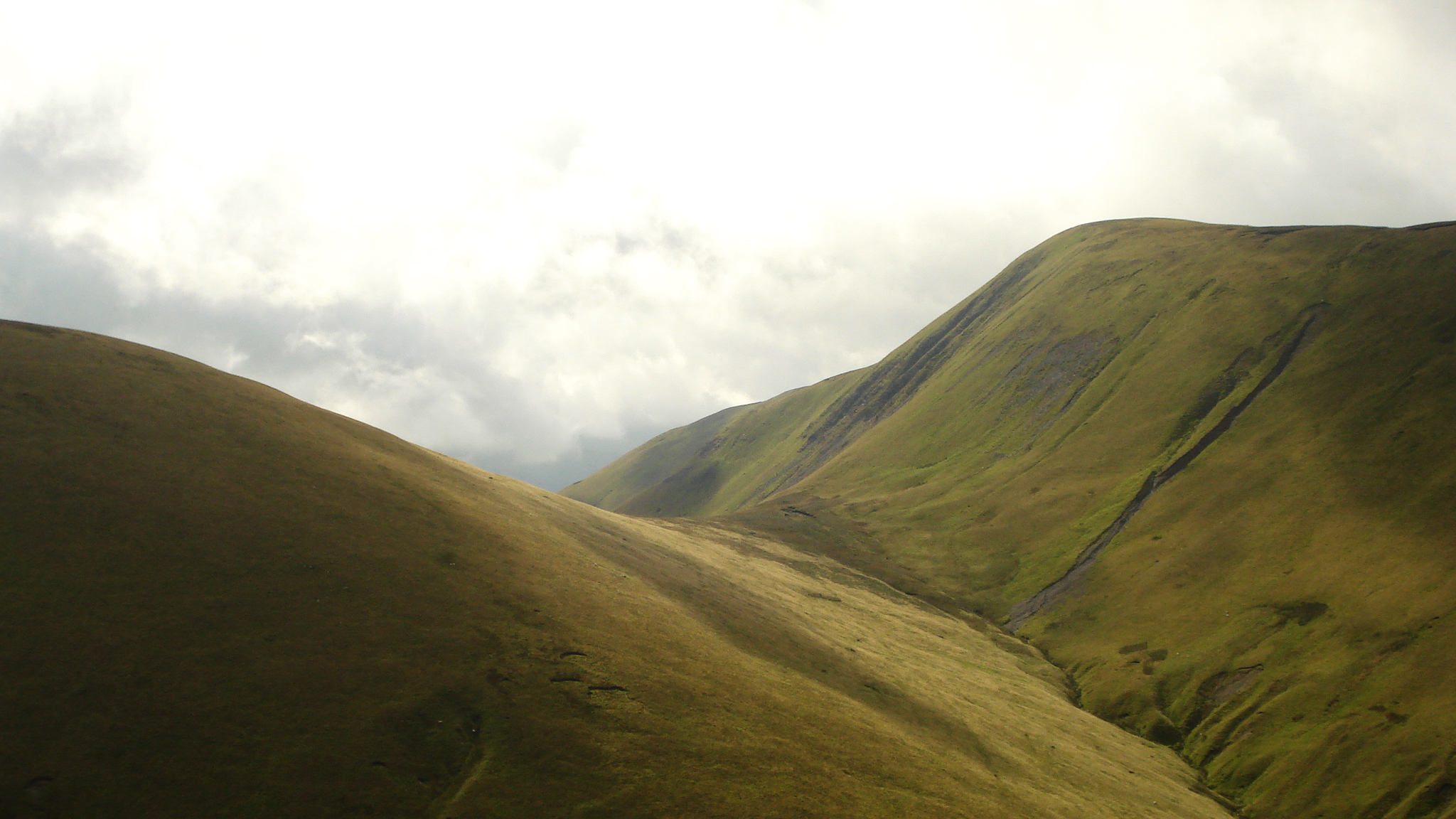 The perfect example of a col - a high pass between two mountains - with Kensgriff on the left and Yarlside on the right. Taken in the Howgills on the steep descent from Randygill Top into Bowderdale.